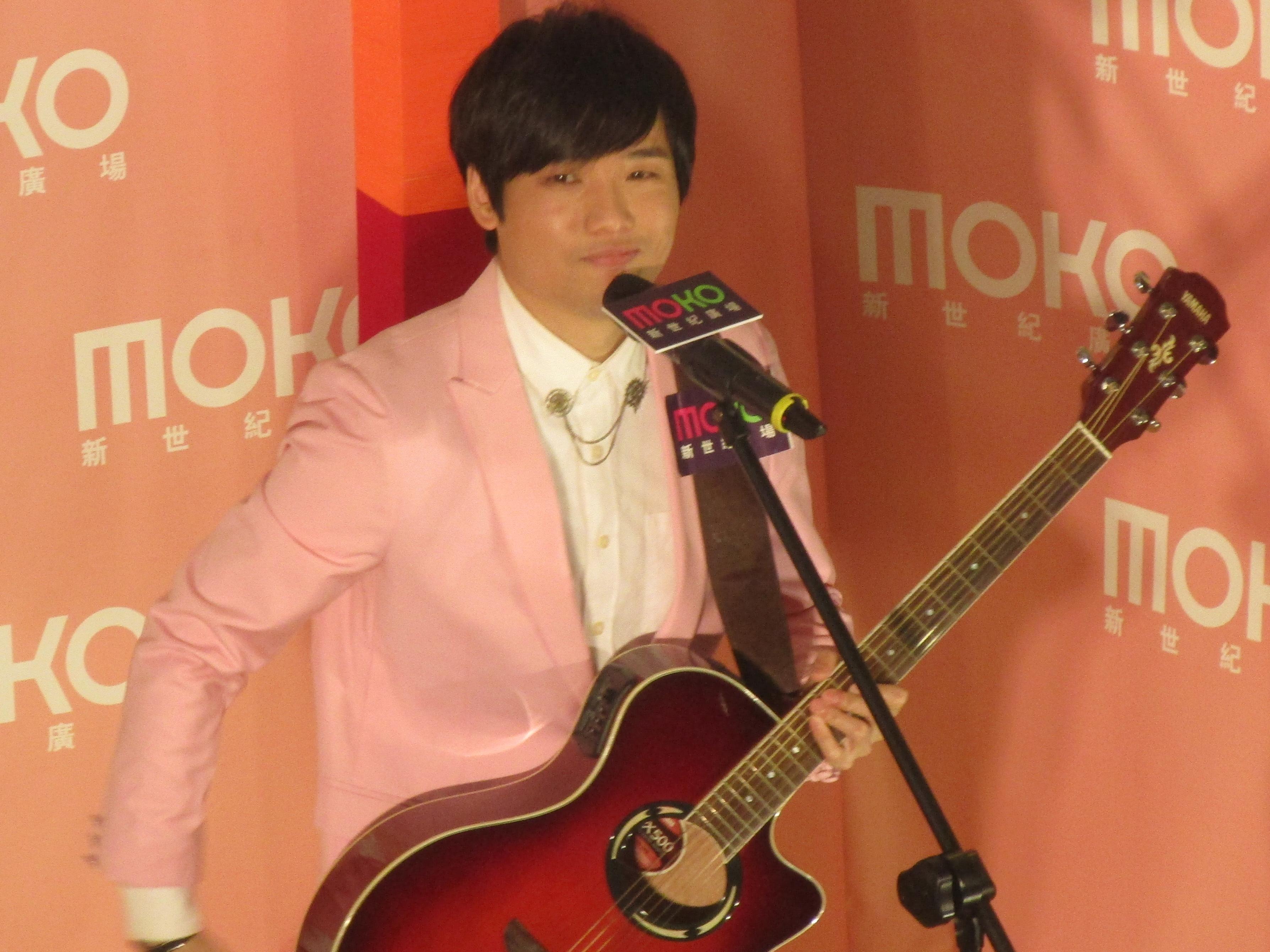 Cliff Chan is in MOKO, Mong Kok